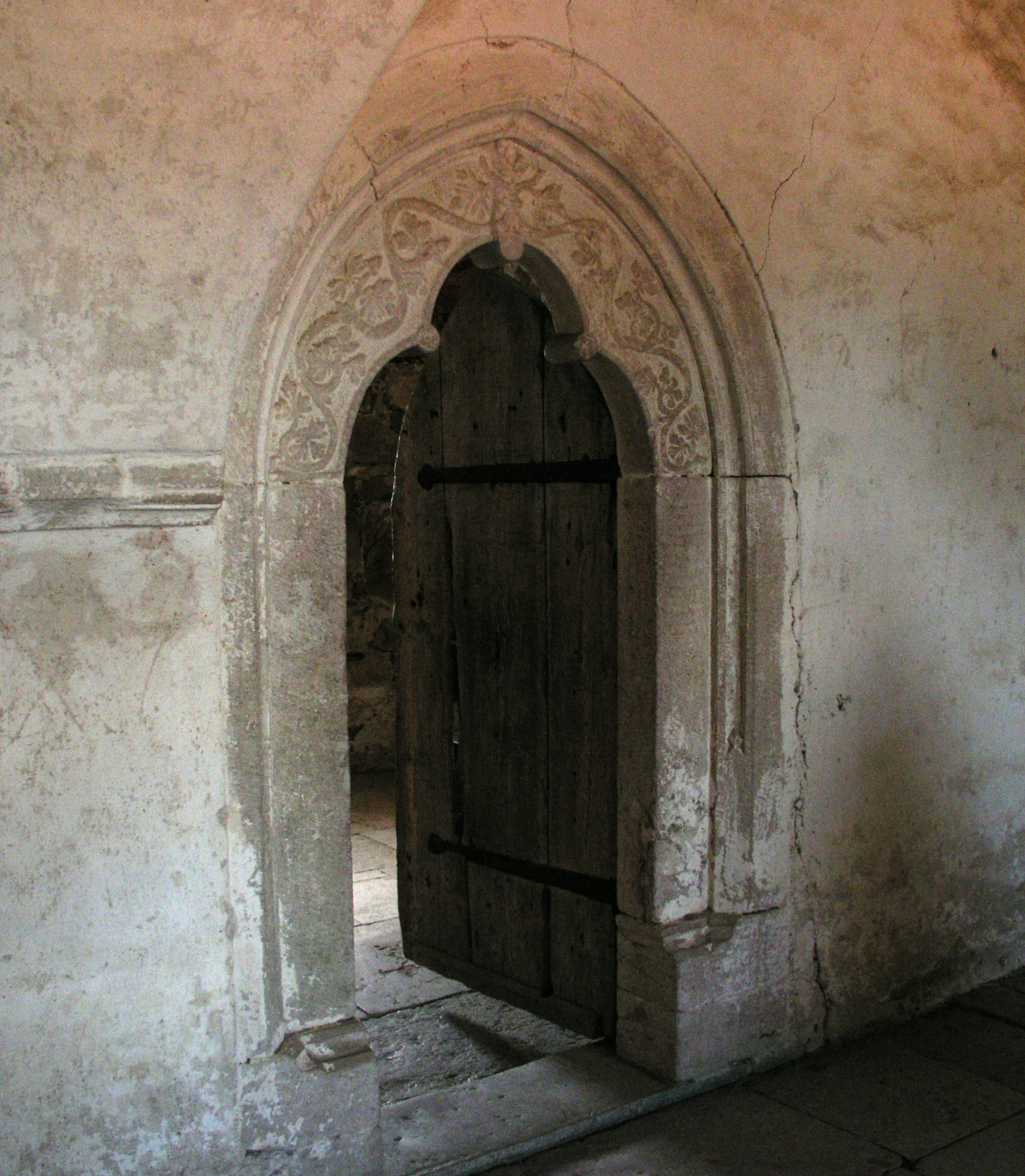 Glimmingehus, Sweden. Door. The photo was taken the 8th of August 2005 by Håkan Svensson (Xauxa).